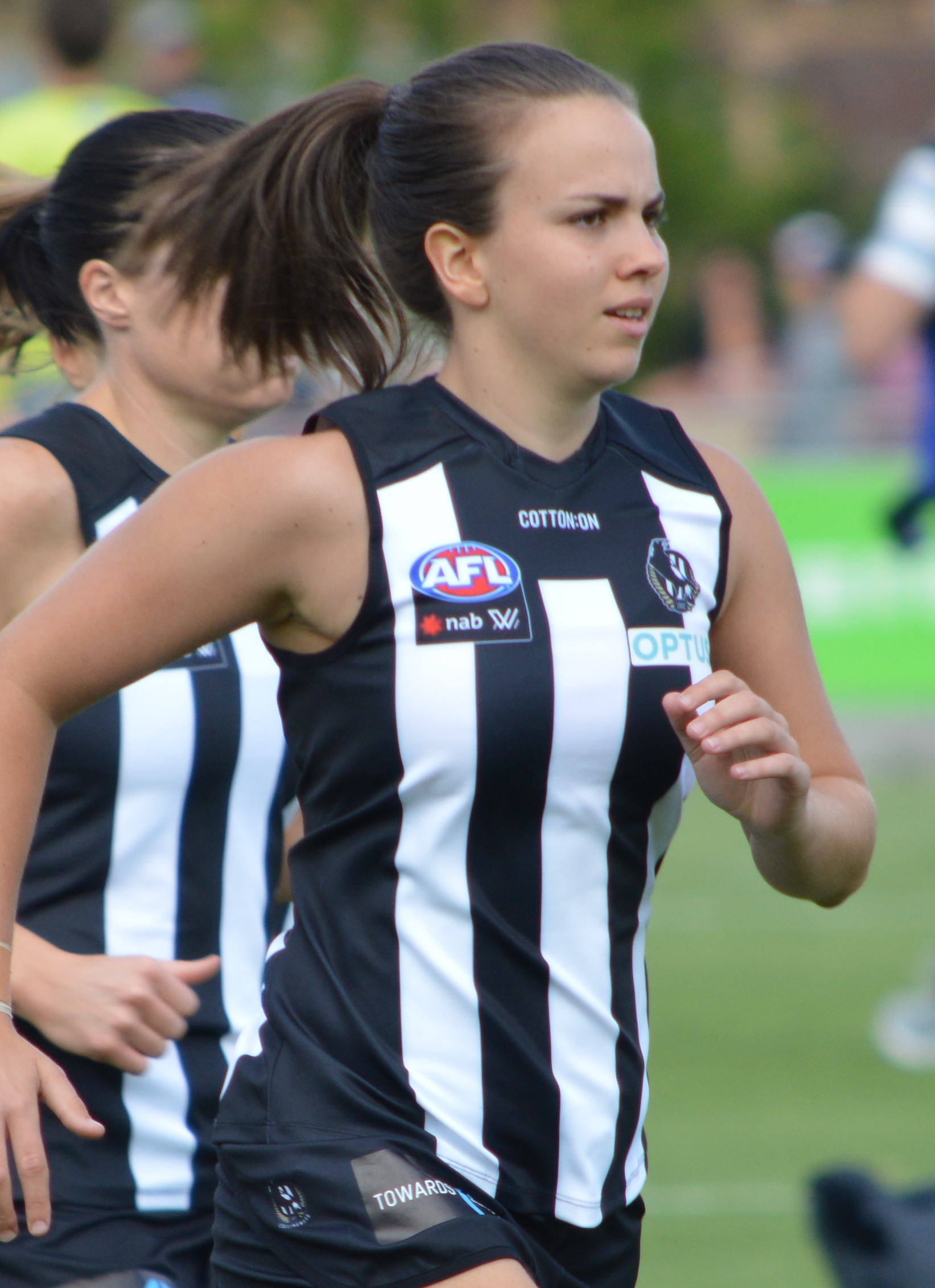 Georgia Gourlay with Collingwood during a match against Melbourne at Victoria Park in round 2 of the 2019 AFL Women's season.